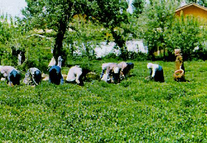 Summer 2008.